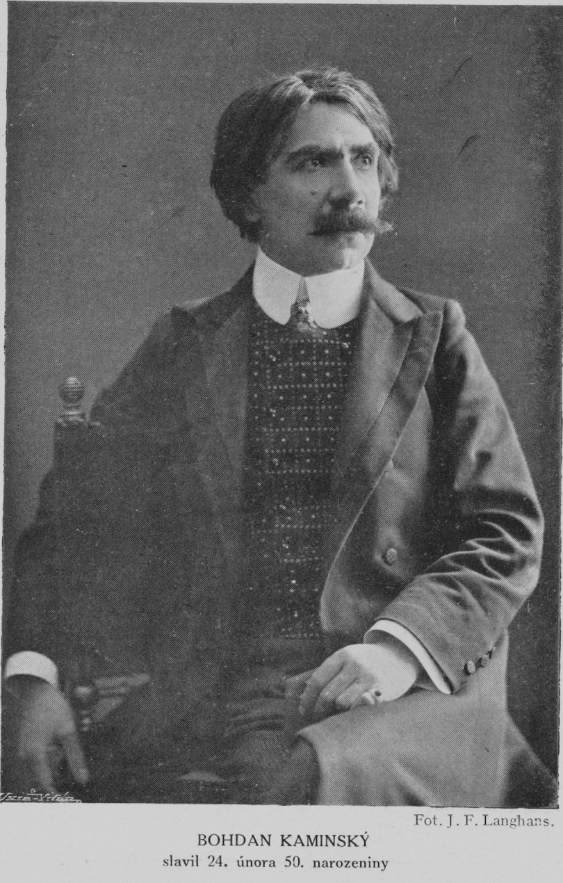 Portrait of Bohdan Kaminský, Czech poet.